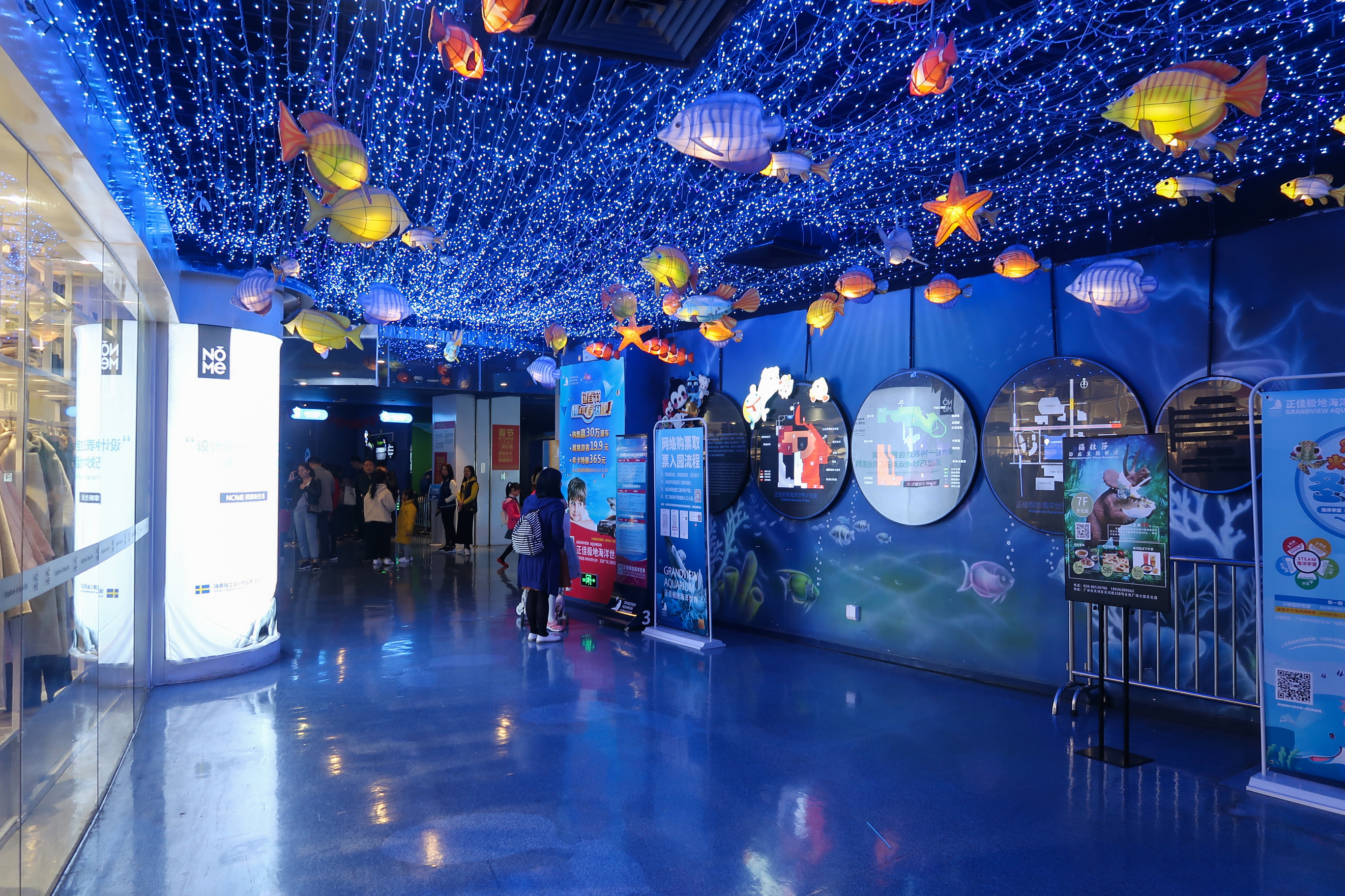 Grandview Mall 正佳極地海洋世界